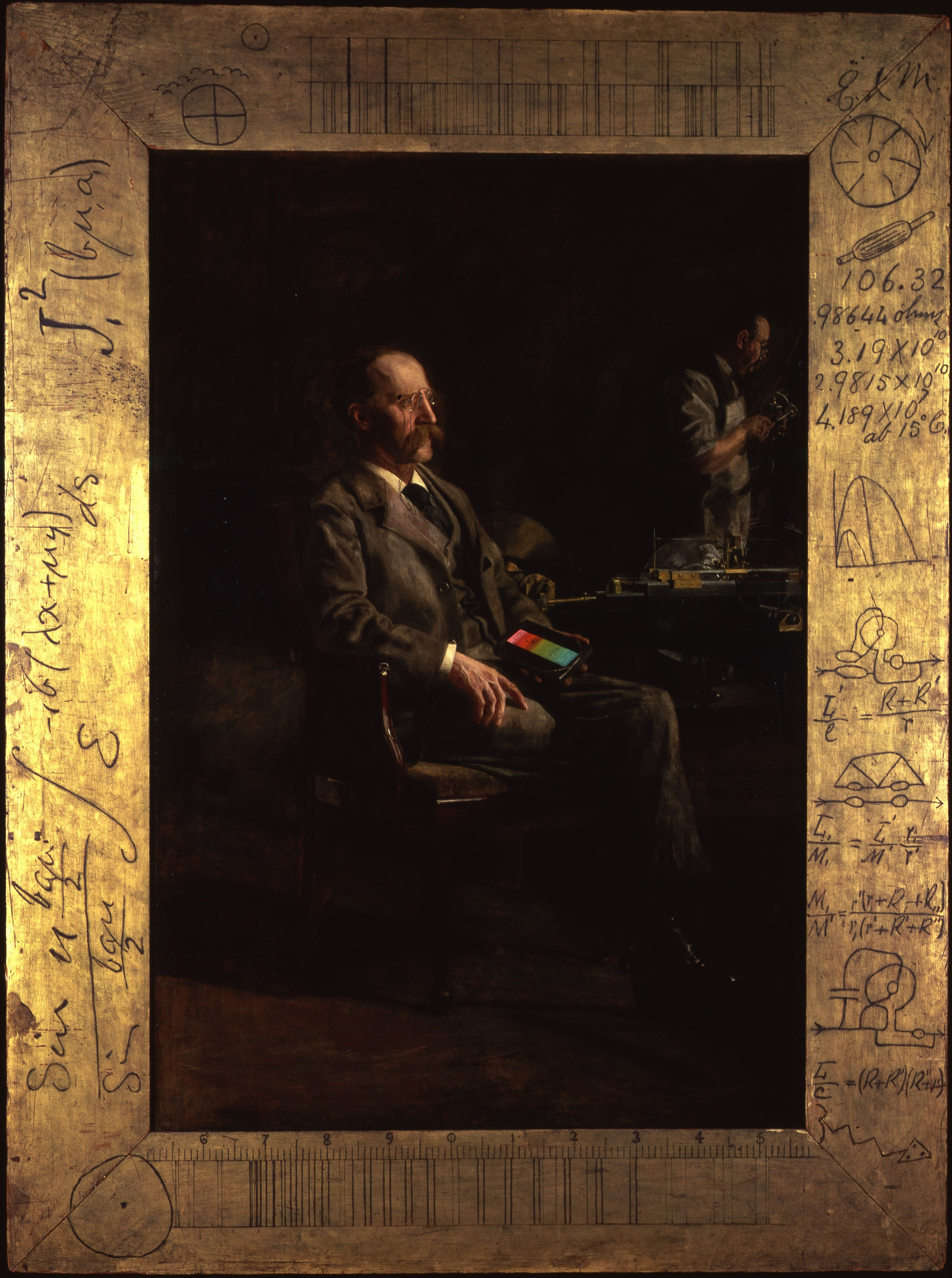 Portrait of Henry Augustus Rowland by Thomas Eakins with original frame by artist